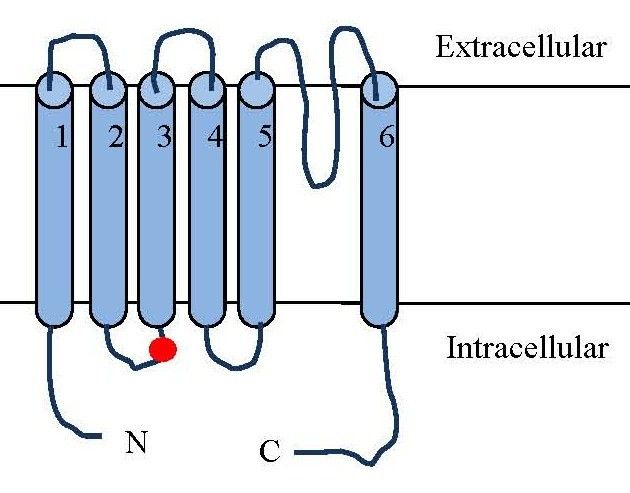 schematic figure of the trpv1 receptor